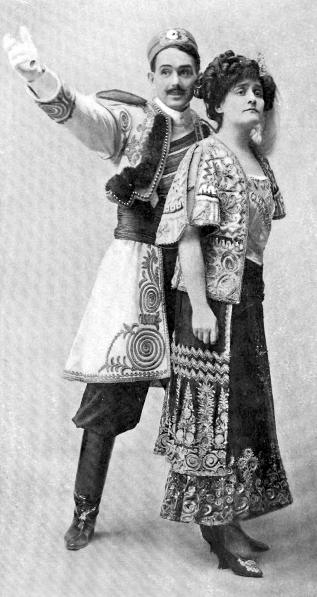 Promotional photograph of the Broadway production of The Merry Widow, starring Donald Brian and Ethel Jackson